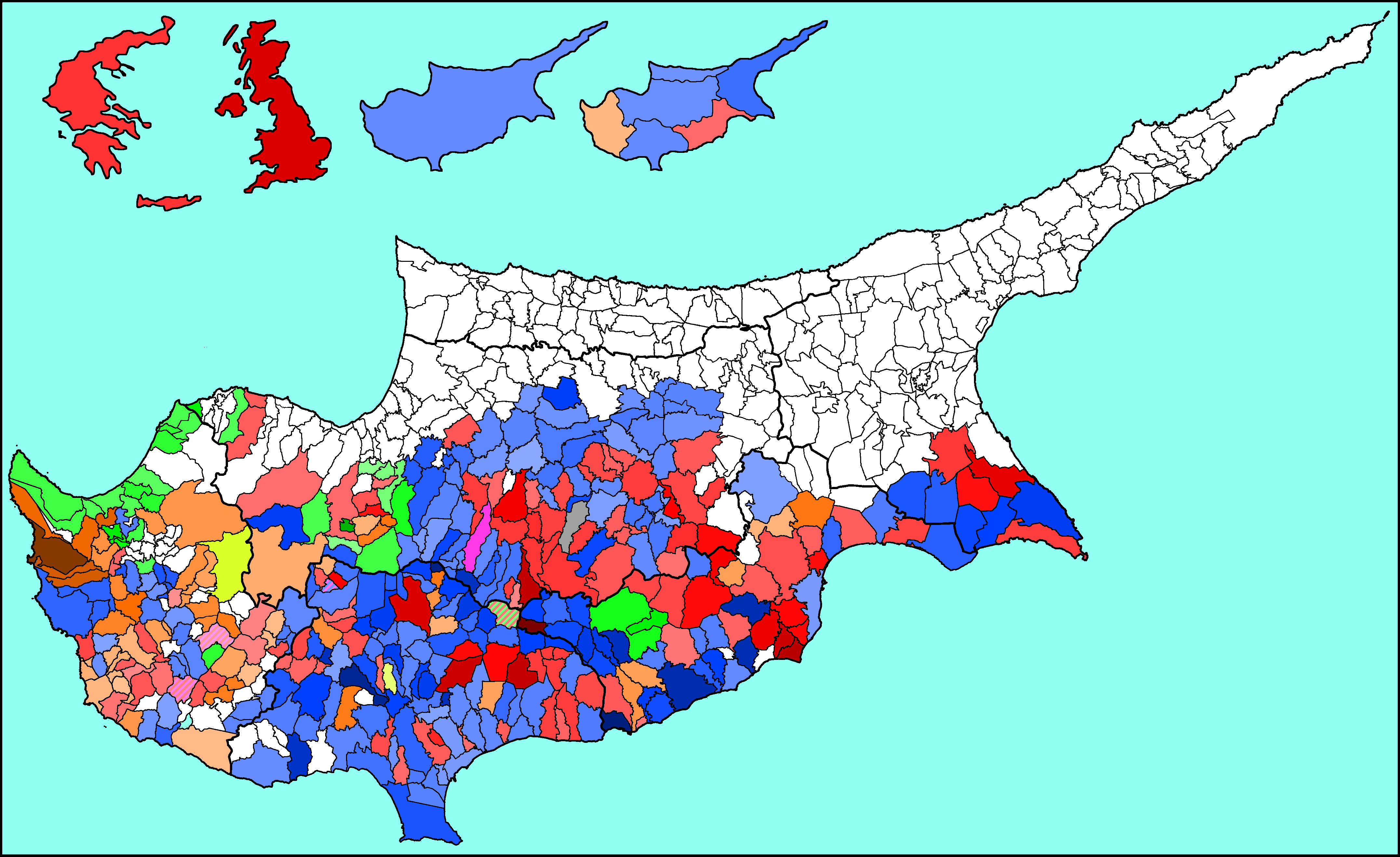 Depicts the Cypriot Parliamentary Election 2016 by District. Uploaded on my DA Key: White - Under Occupation/No Data/Uninhabited Blue - DISY Red - AKEL Orange - DIKO Green - EDEK Yellow Green - SYPOL Purple - Solidarity Aqua - Greens Grey - ELAM